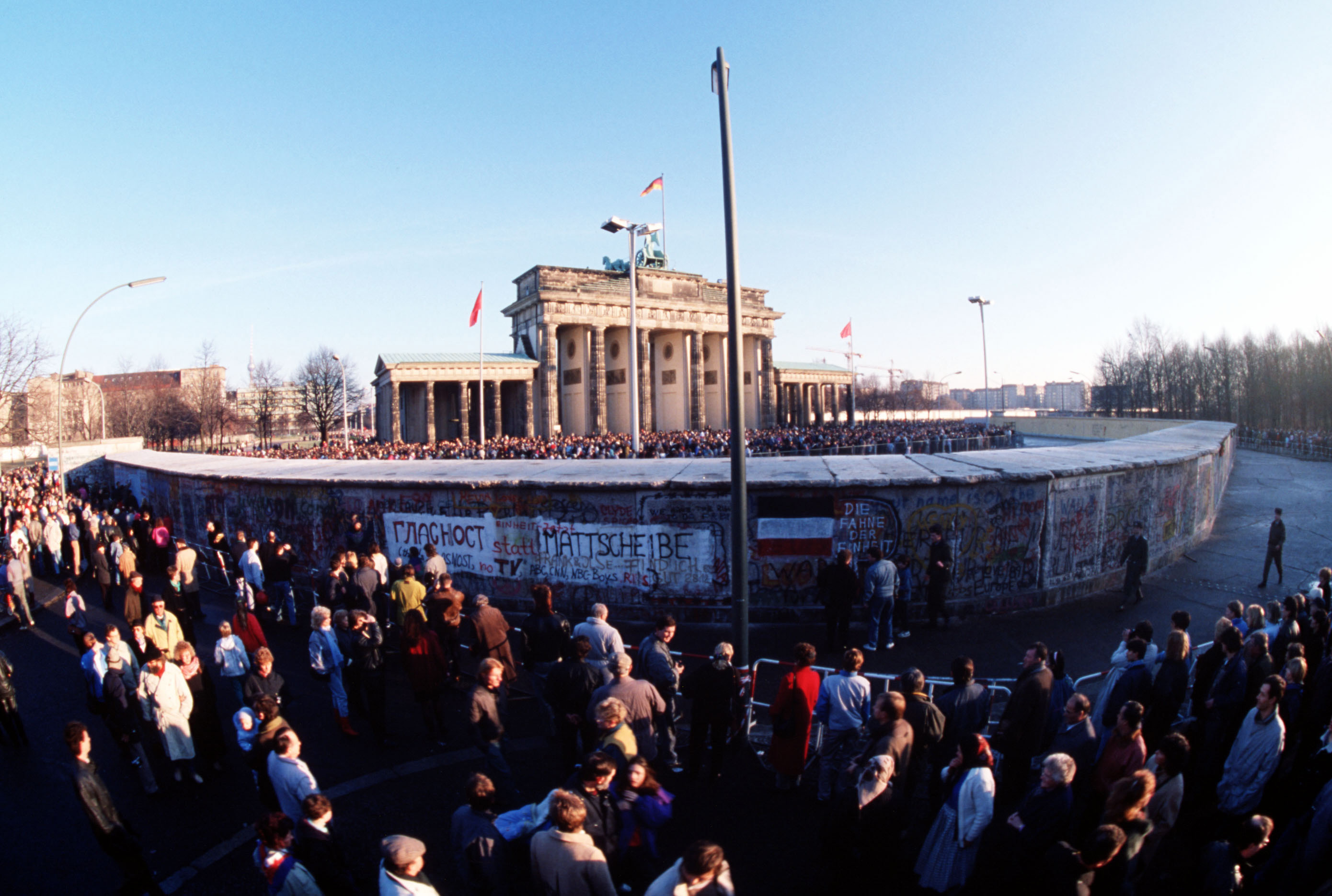 Brandenburg Gate on December 1, 1989. The structure is already freely accessible from the East, however, the crossing to the Western side will not be officially open until December 22nd.